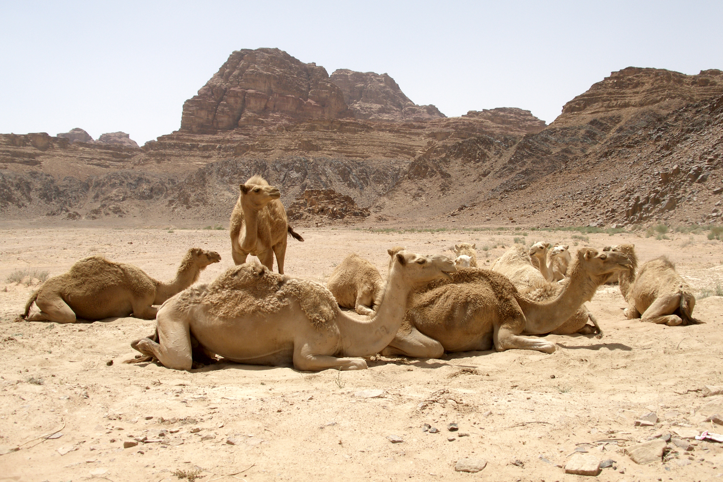 Wadi Rum is a spectacularly scenic desert valley in southern Jordan. Masses of soaring cliffs and sandstone and granite mountains. Wadi Rum rocky formations are made mostly of sandstone (clastic sedimentary rock of quartz or feldspar) and granite rock.